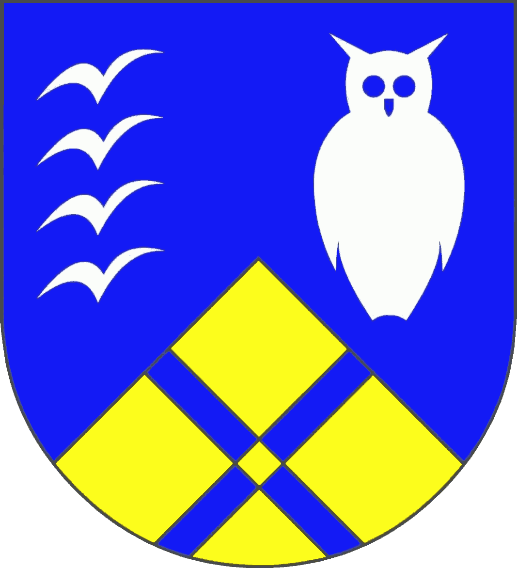 Coat of arms of the municipality Nieby in Schleswig-Holstein, Germany.